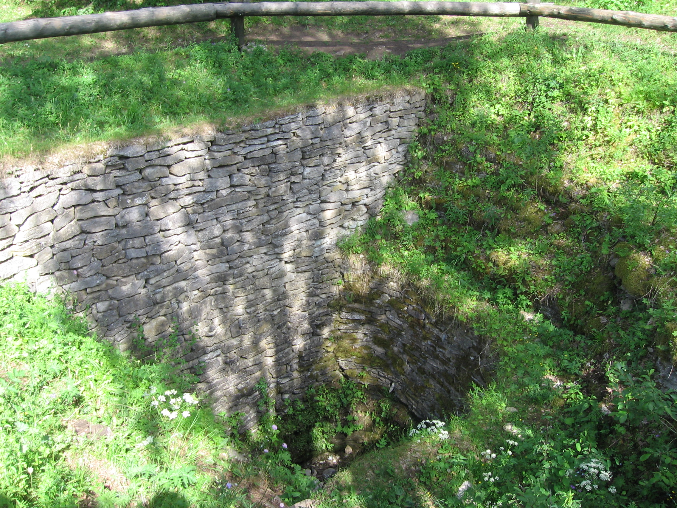 Well in Varbola Stronghold